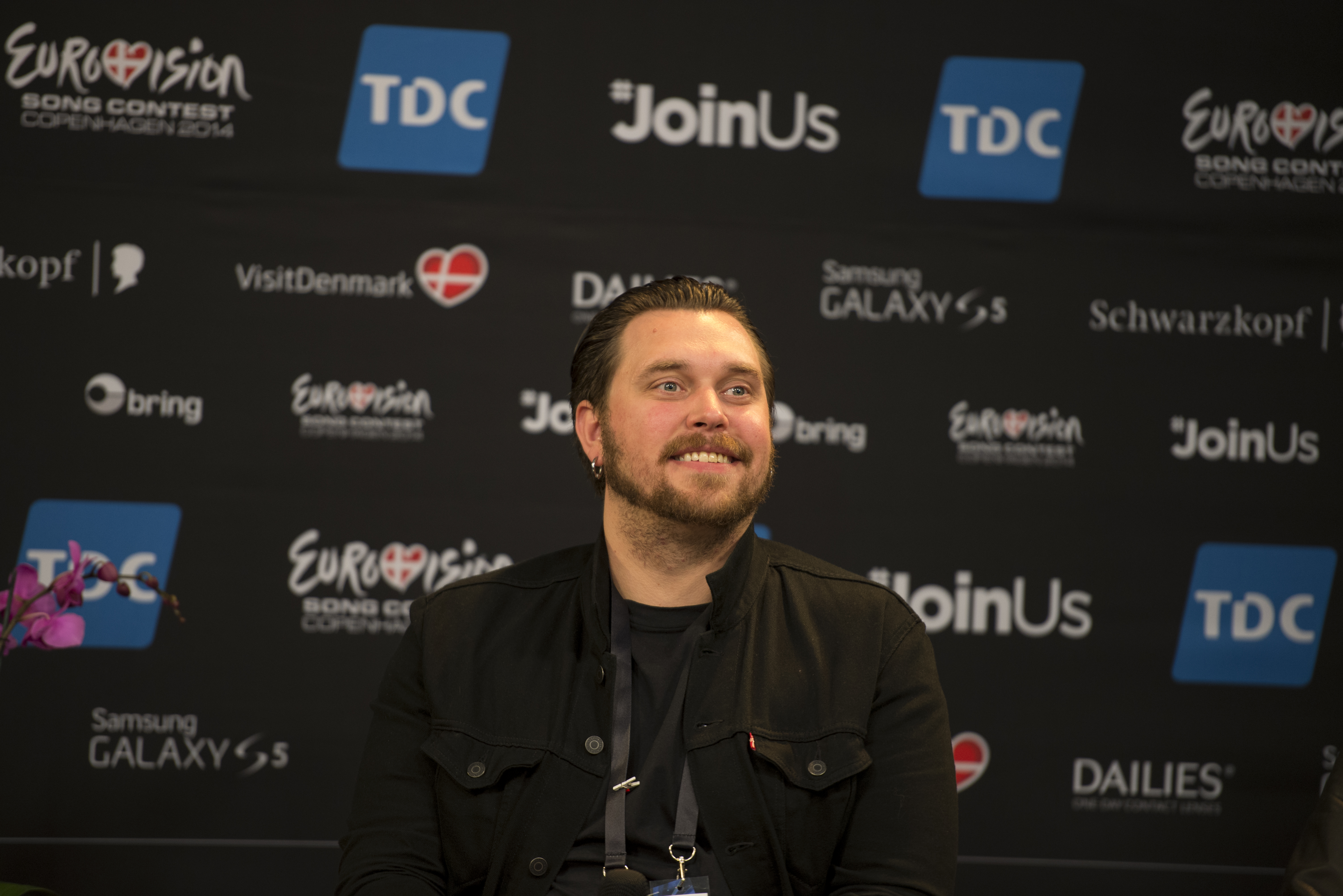 Carl Espen at a Meet & Greet during the Eurovision Song Contest 2014 Copenhagen. (Help translate this text)